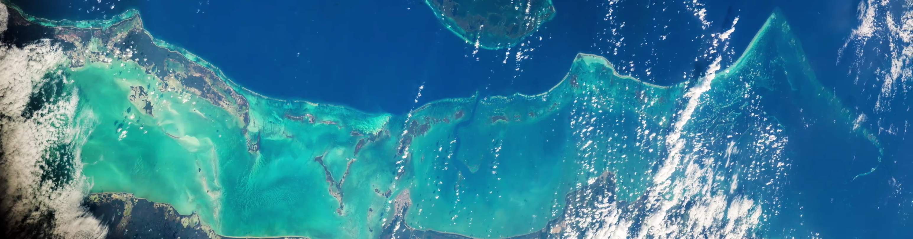 Photograph of the Belize Barrier Reef from the International Space Station